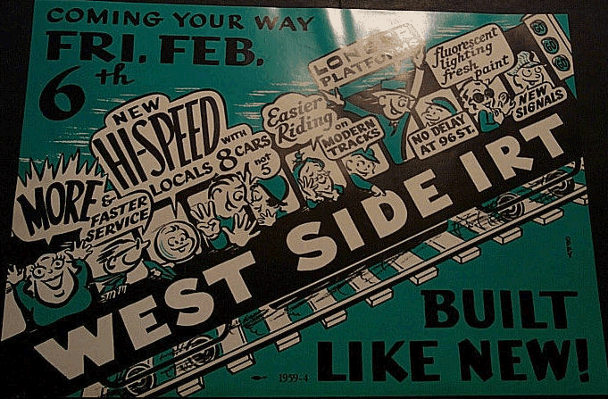 This poster was created by the New York City Transit Authority to inform passengers of the IRT West Side Line of the improved service that was set to arrive on February 6, 1959.